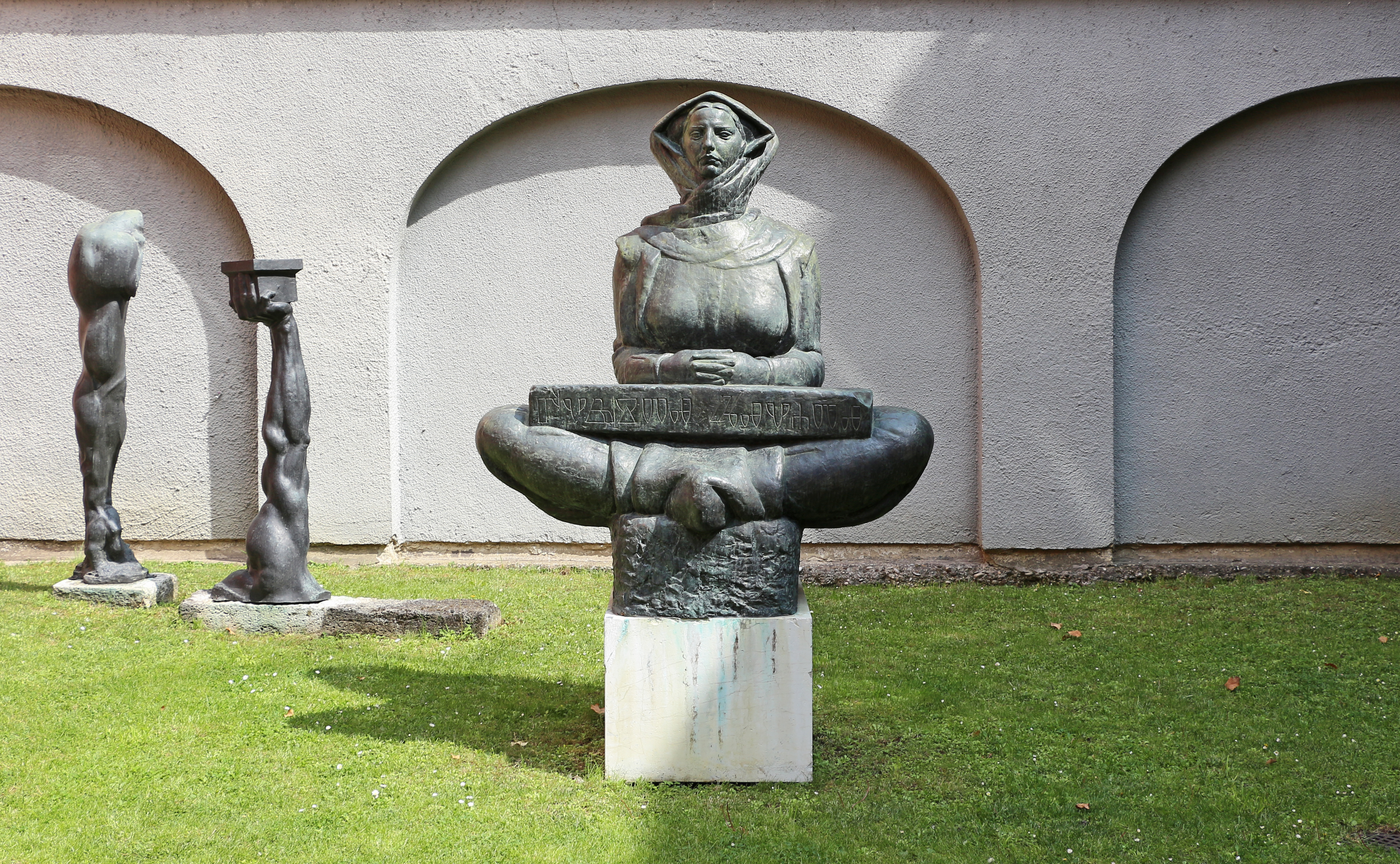 History of Croatians (1932) by Ivan Meštrović in Meštrović Atelier, Zagreb